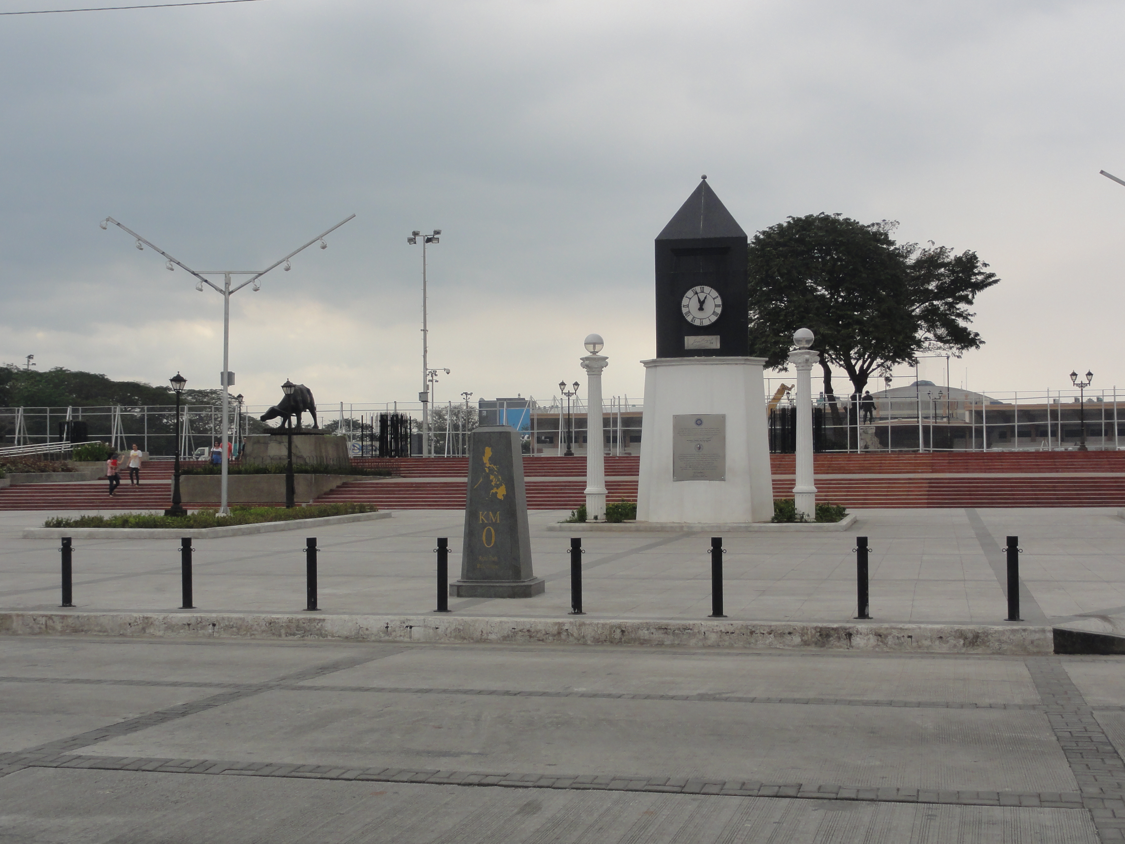 Kilometer Zero marker in front of Rizal monument along Roxas Boulevard, Ermita, Manila. This marker is the basis of distance measurement of roads in the Philippines..